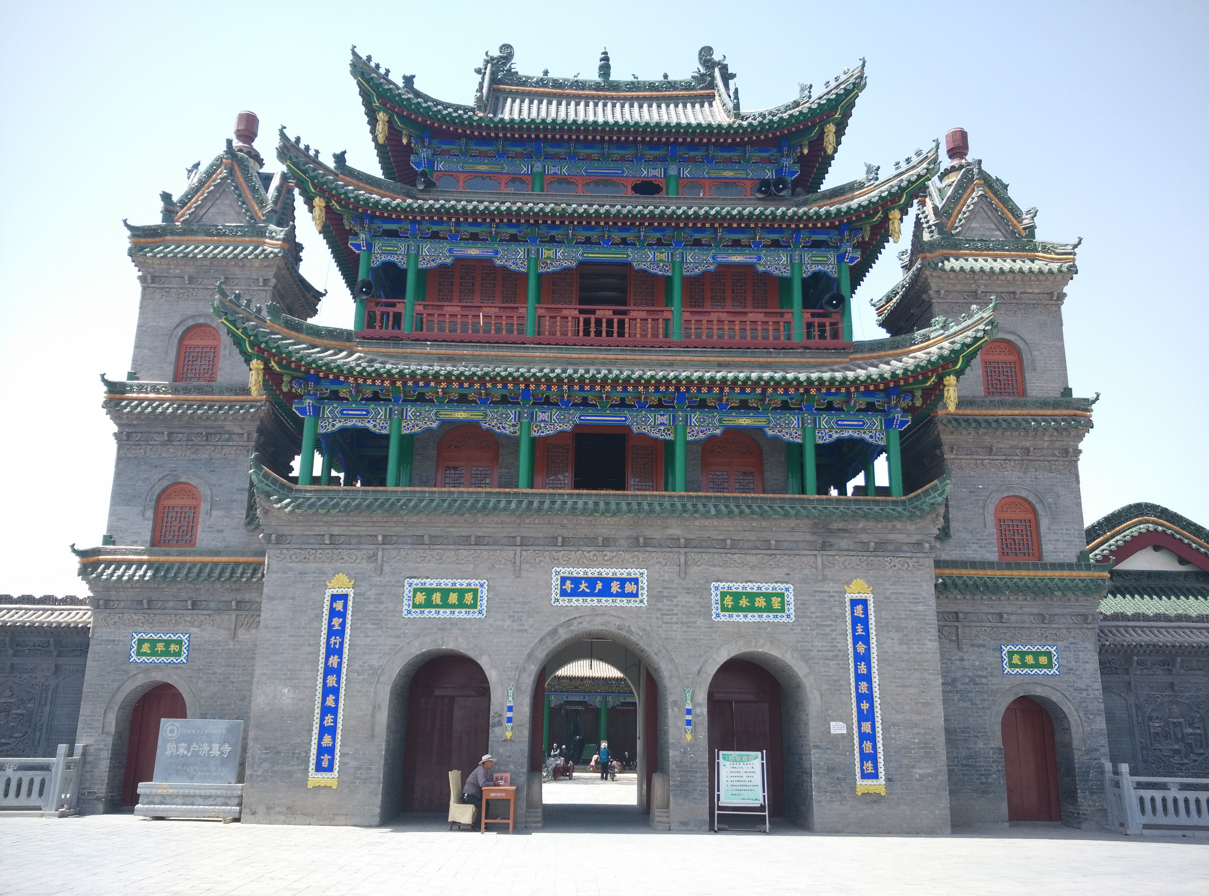 纳家户清真寺的正门